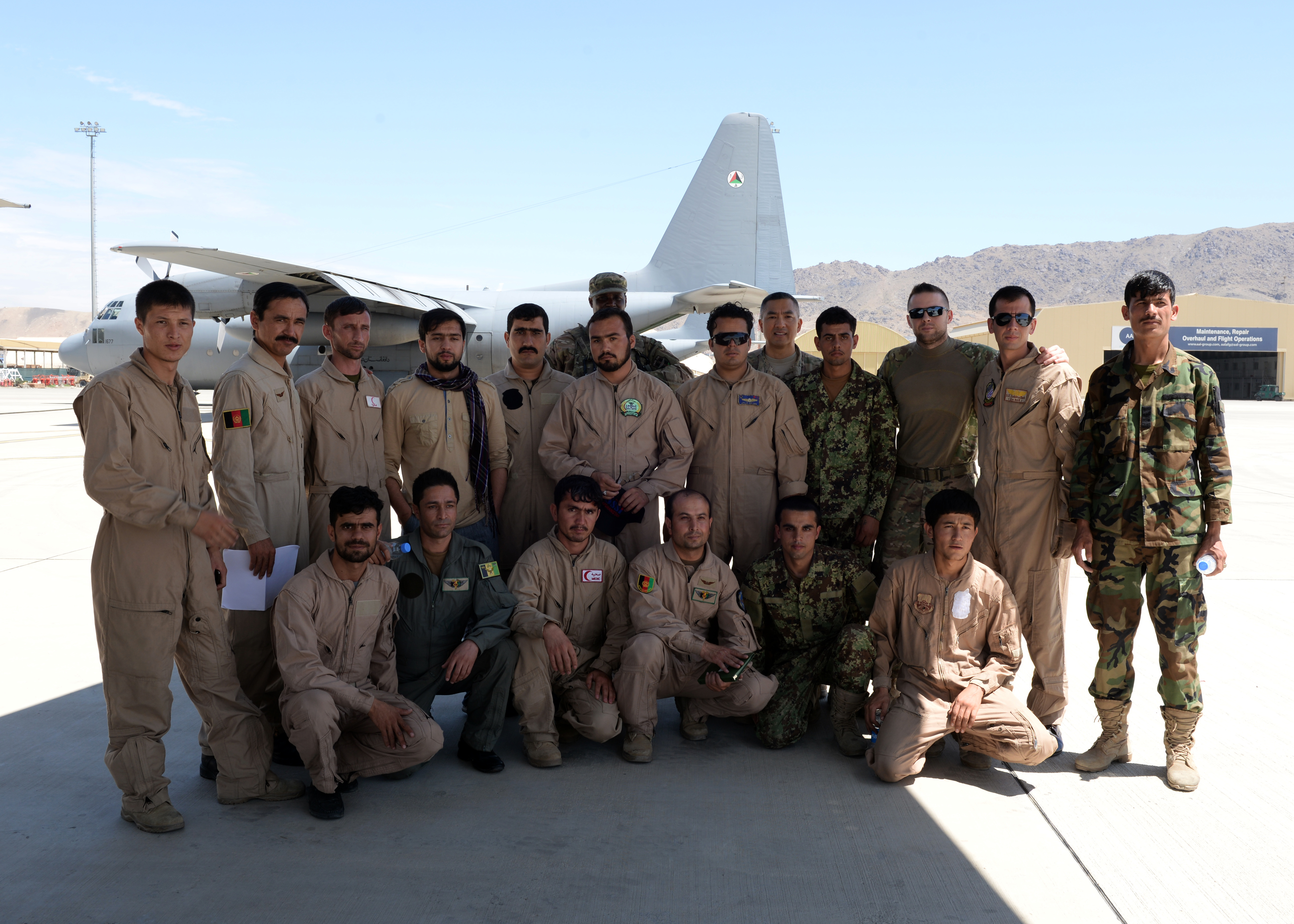 Members of the Train, Advise, Assist Command-Air and Afghan National Army medical evacuation team members pose for a group photo after performing hands on MEDEVAC training July 29, 2015, at Hamid Karzai International Airport, Kabul, Afghanistan. The TAAC-Air advisers host weekly training with the Afghan flight medics, with assistance from U.S. Air Force aeromedical evacuation subject matter experts.